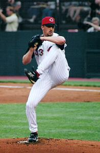 Jimmy Haynes, Cincinnati Reds pitcher, 2002, by Rick Dikeman 00:23, 19 February 2004 . . Rdikeman . . 196×300 (11 KB)